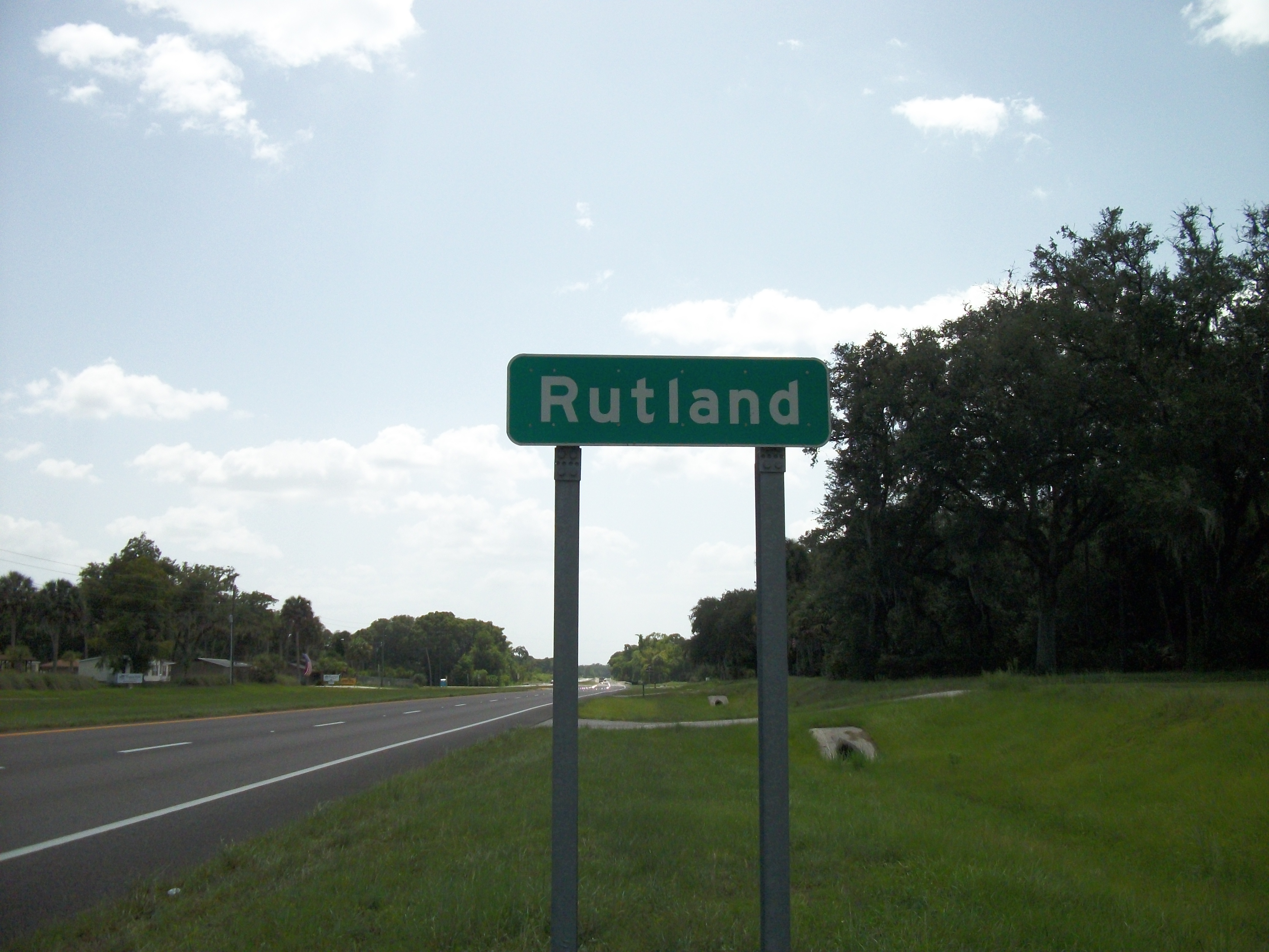 Westbound Florida State Road 44 enters the rural town of Rutland, Florida along the Sumter-Citrus County border. This section of SR 44 is loaded with farms, parks, local houses and boat launching areas, including a couple of places that hold swamp boat tours of the Withlacoochee River.